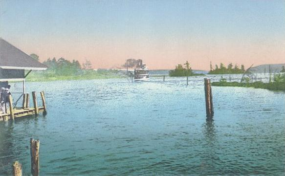 Steamboat leaving Bay of Naples Landing, ME; from a c. 1910 postcard.